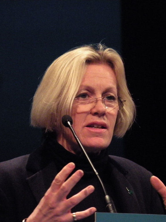 Tessa Munt, addressing a Liberal Democrat conference in the International Convention Centre, Birmingham in March 2010, 2 months before being elected MP for Wells.